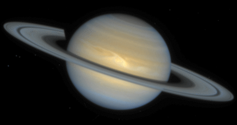 A Great White Spot on Saturn's atmosphere.